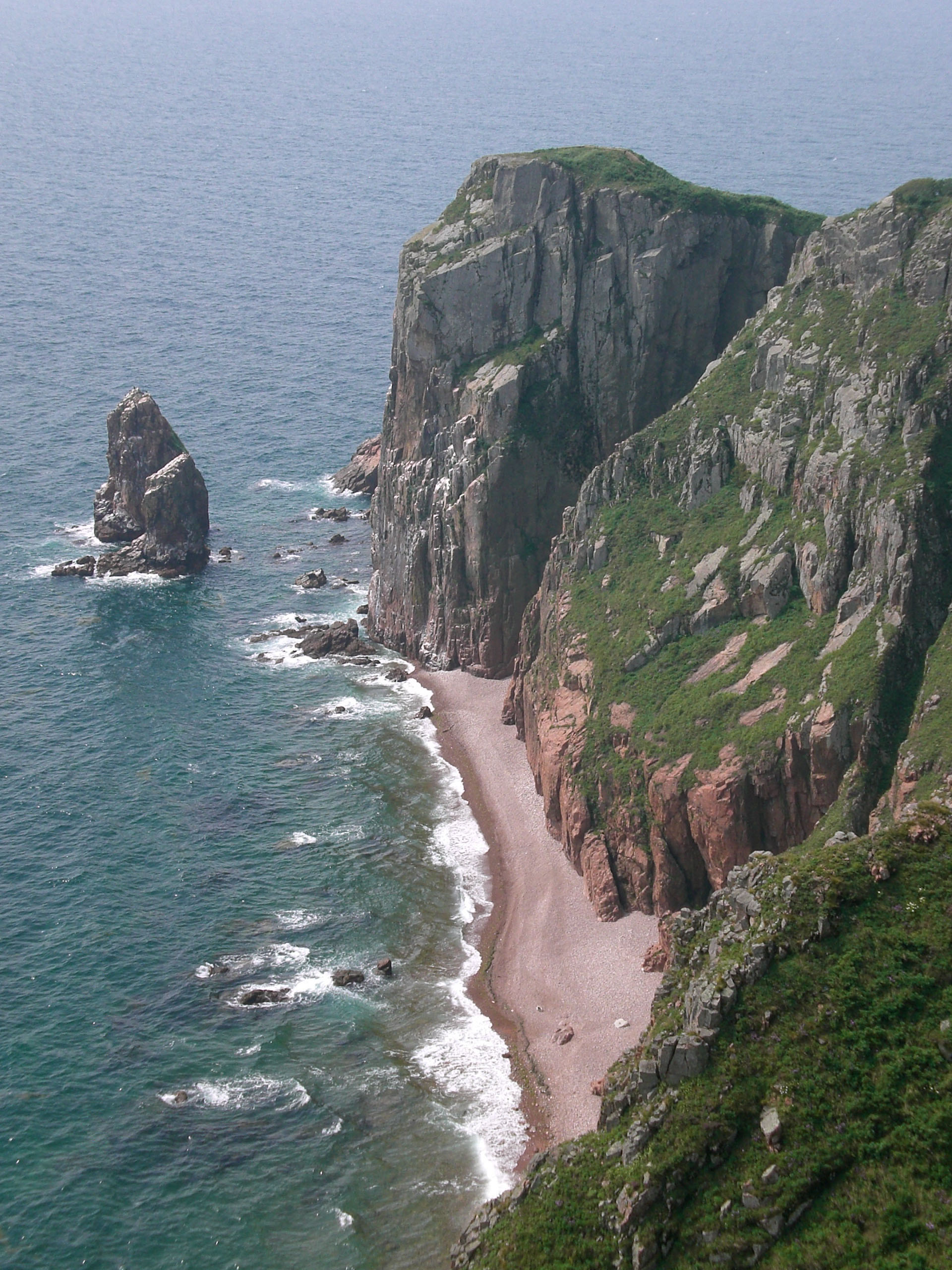 Mayachny cape - south point of Shkot island, Vladivostok.